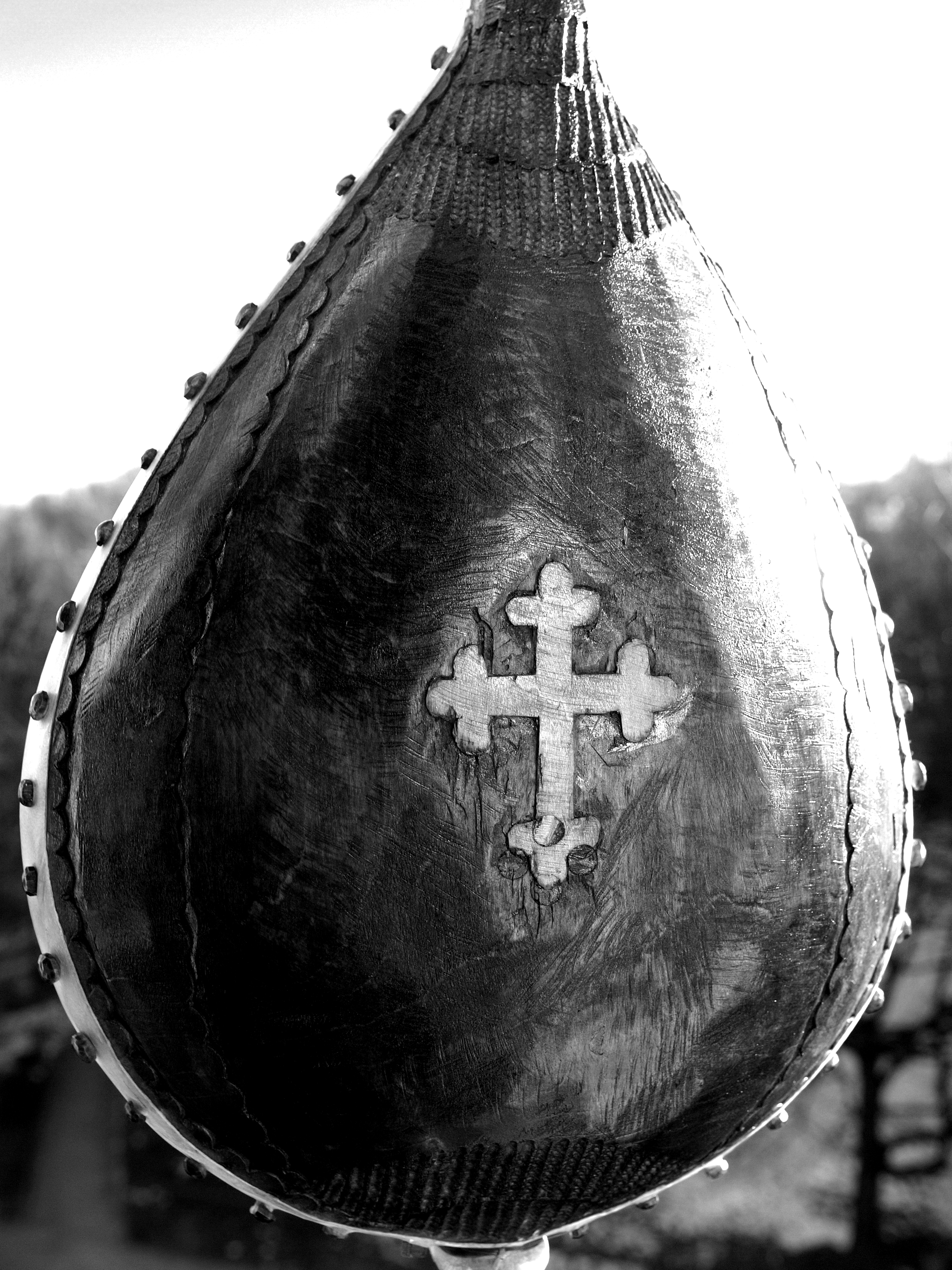 Gusle back with cross